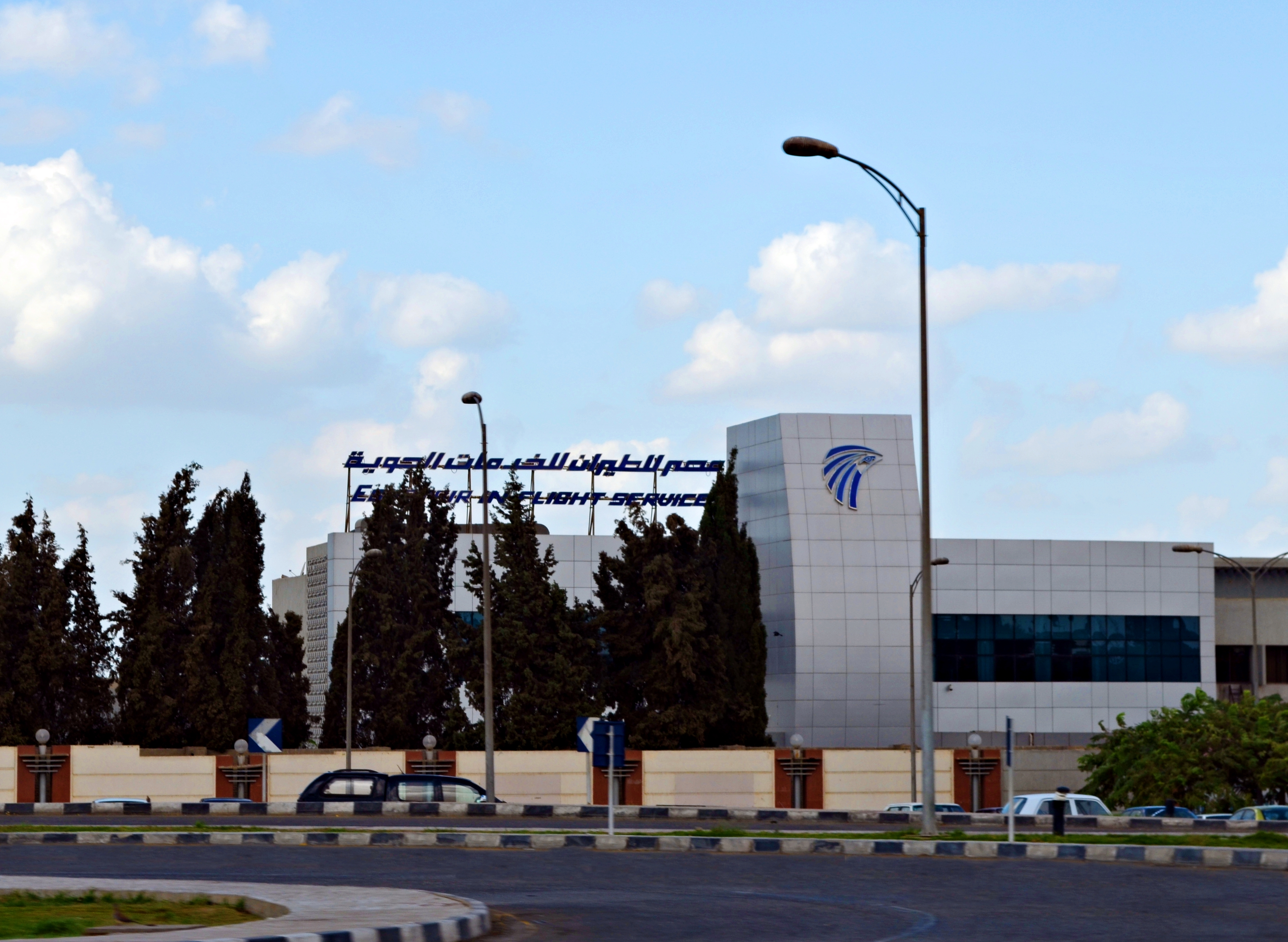 EgyptAir In-Flight Services Building in Cairo